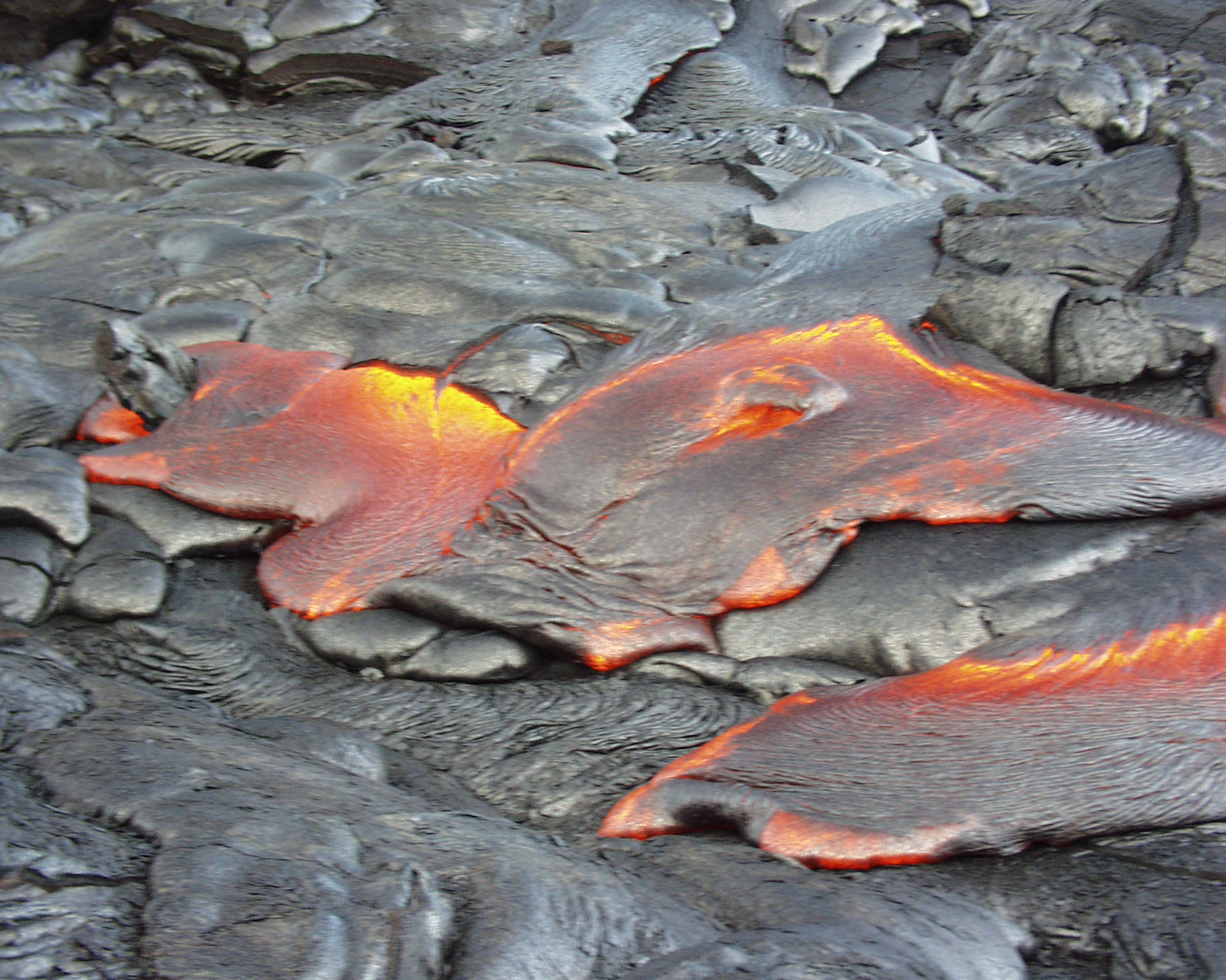 Description: Red Lava at Hawaii Location: Hawaii, Hawaii